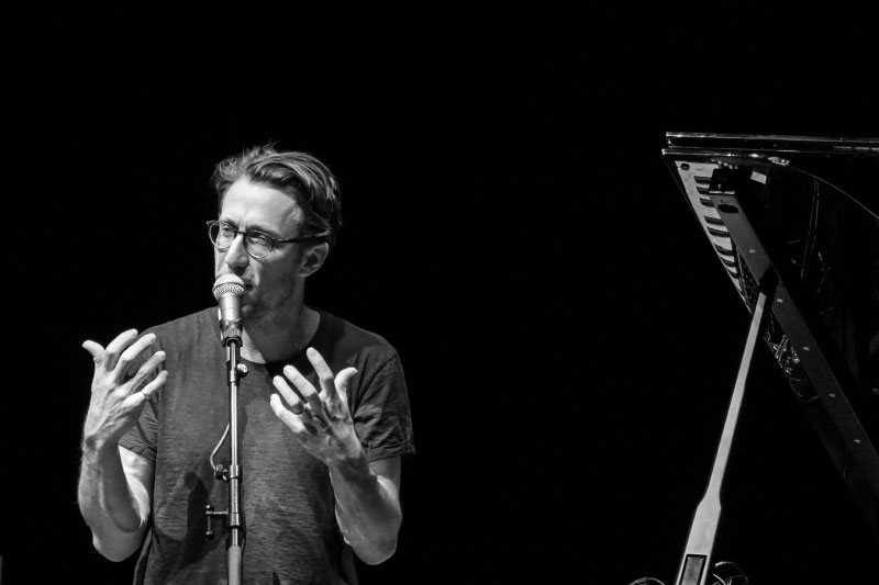 Bill Laurance with his trio in Aarhus (Denmark 2020)